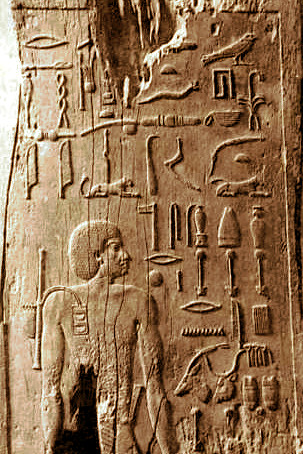 Relief of Hesy-Ra from his Mastaba. The photo is expandible, with some High Res qualities; it shows 2 nearly identical hieroglyphs, the Door bolt (s hieroglyph), the horizontal S hieroglyph, and god Min (god), his emblem.